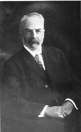 Frontispiece to memoirs, published 1917 in US.